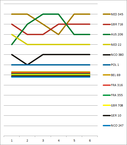 Dragon Positions during the 2008 Vintage